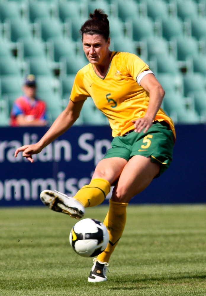 Cheryl Salisbury playing for the Australian Women's Football Team against Italy in a friendly international.